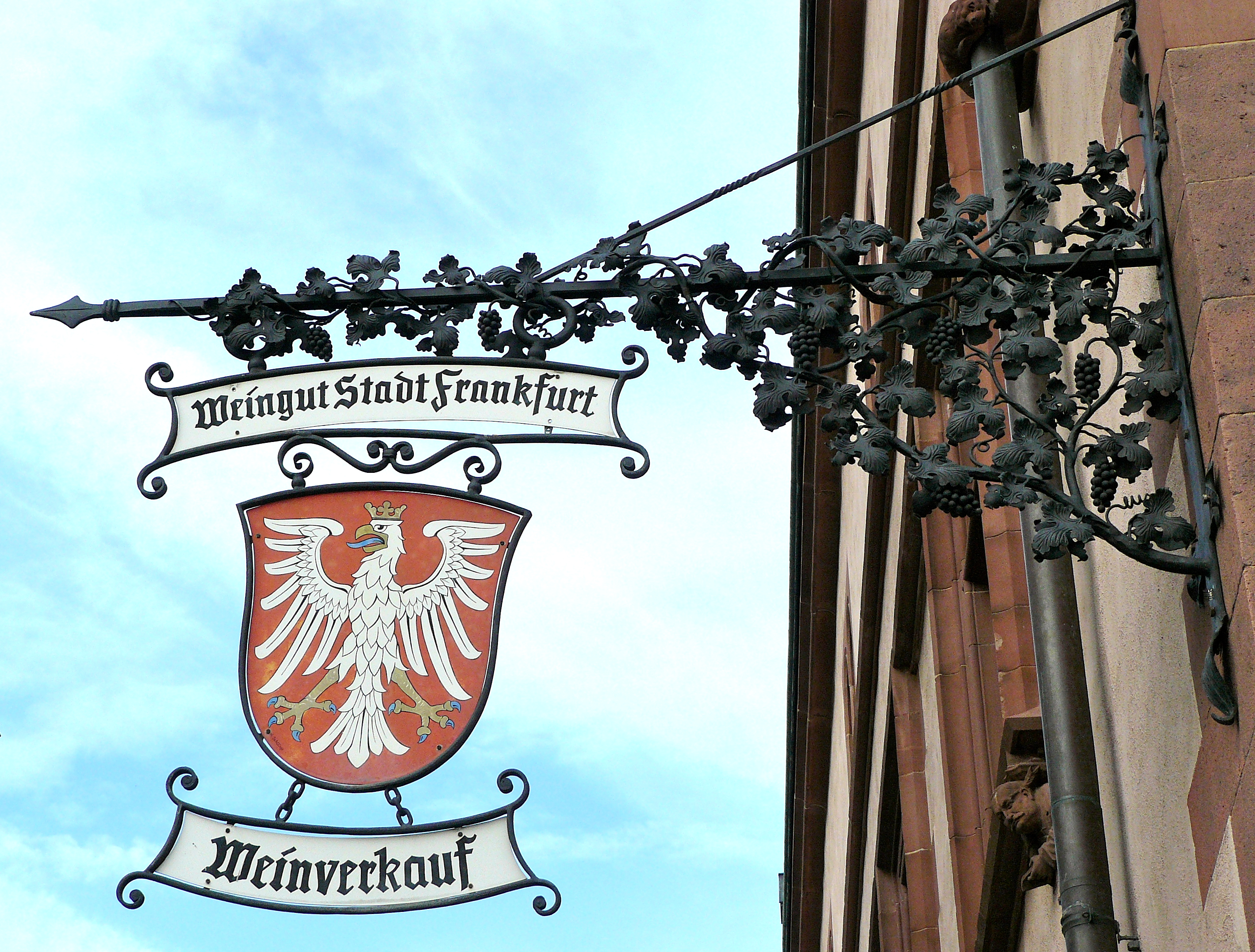 Vineyard City of Frankfurt, Hesse, Germany